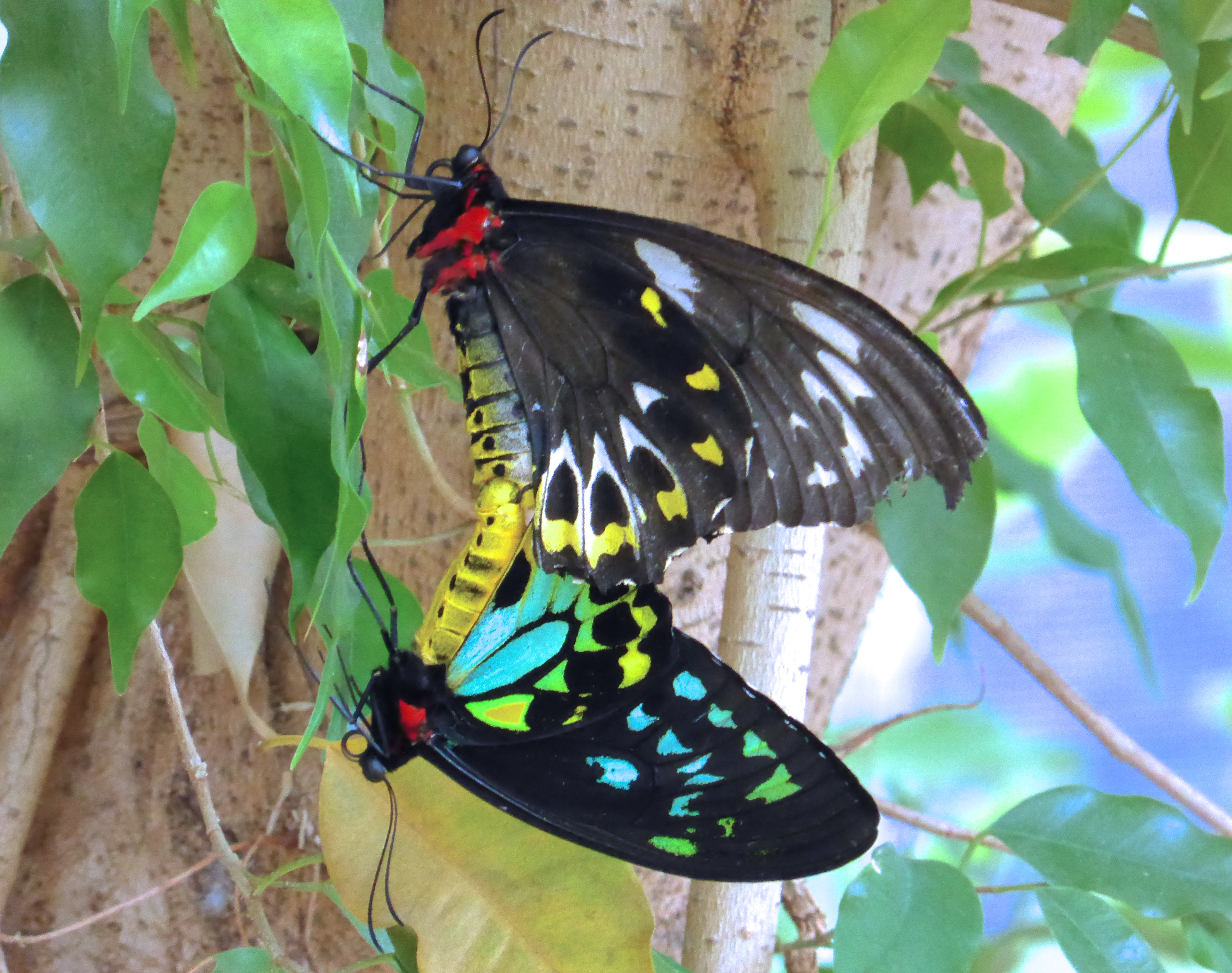 A copulating pair (female above, male below) of Ornithoptera euphorion at the butterfly enclosure of Melbourne Zoo.